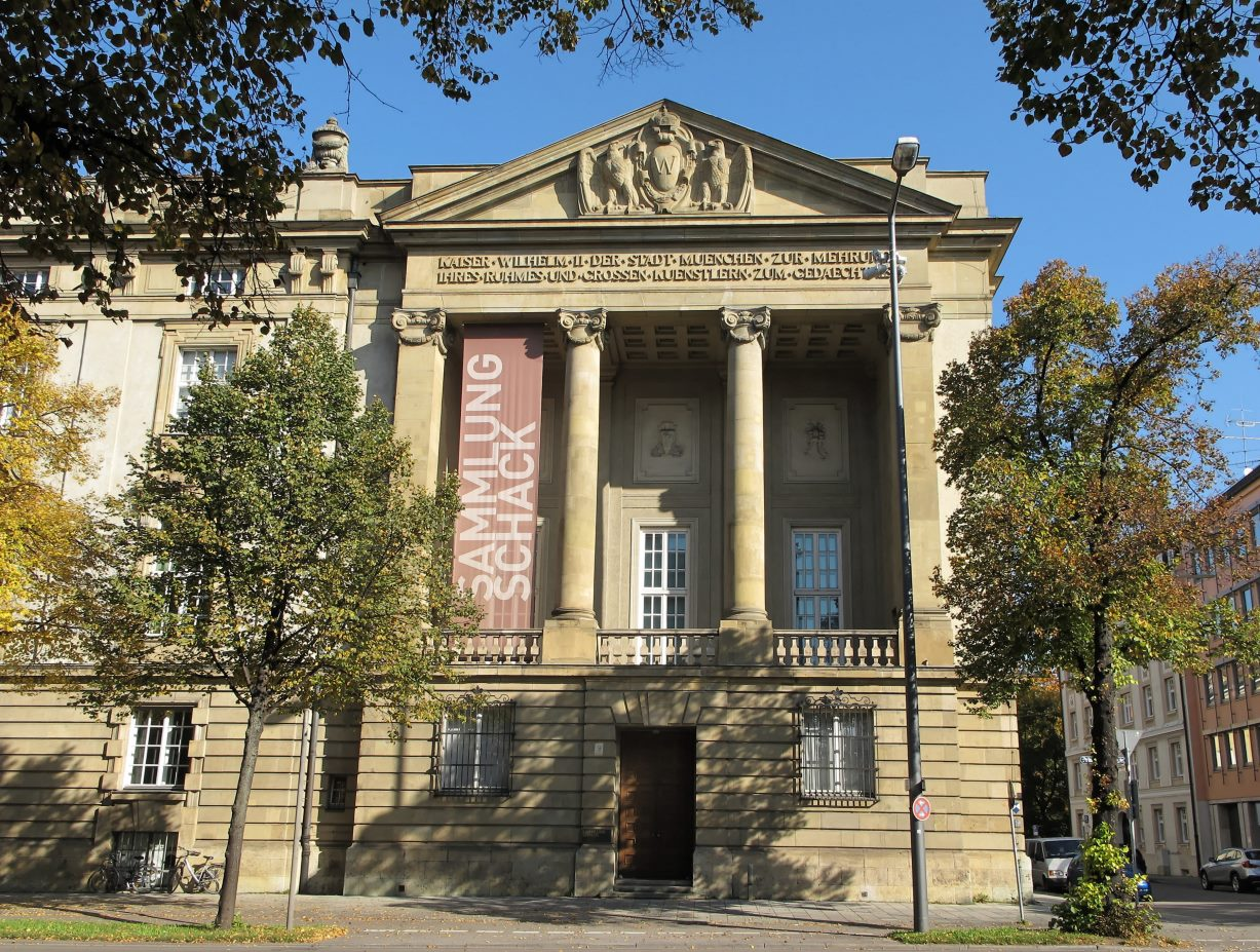 Munich, Museum "Sammlung Schack"